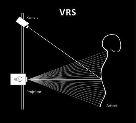 functional principle of the video rasterstereography